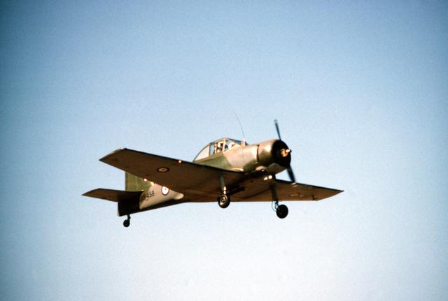 Sourced from: Details: ID: DFST8210313 Service Depicted: Air Force A right front view of an RAAF Wing forward air control aircraft taking off during exercise Pacific Consort. Camera Operator: TSGT BERTRAM MAU Date Shot: 19 Aug 1980